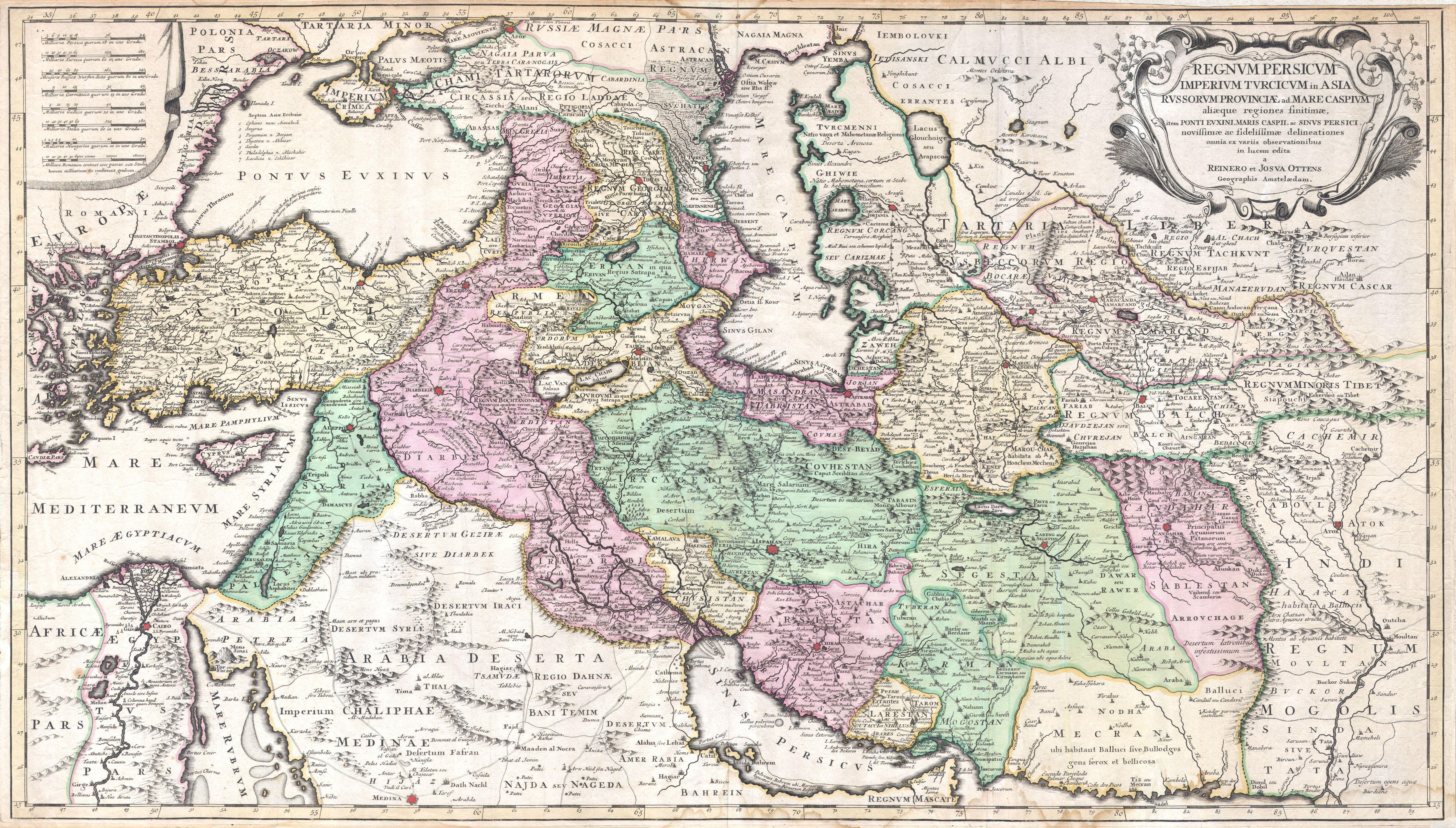 A scarce and altogether spectacular c. 1730 map of southwestern Asia, specifically focusing on Persia, by Reiner and Joshua Ottens. Covers from Egypt and Greece eastward to include Turkey, the northern part of the Arabian Peninsula, the Black and Caspian Seas, Persia, and Tartary, Afghanistan and Pakistan, including the Indus valley and the western extant of the Mogul Empire. Extends as far north as Asof (Asov) and “Tibet”, and as far south as Medina. Includes superb detail regarding the early 18th century Silk Route trading routes through Persia and Central Asia, noting the important centers of Samarkand, Bukhara and Tashkent. Generally accurate with only a few notable flaws. Most specifically the positioning of Lake Van and Lake Chahi in close proximity to one another. These lakes are in fact separated by over 160 kilometers. Identifies the Pyramids of Egypt, the ruins of Troy, Mt. Sinai, and Mt. Agerdaghi (Mt. Ararat, but labeled Mt. Noah). Upper right quadrant features an attractive title cartouche with baroque ornamentation. Upper left quadrant has eight distance scales on a curtain.